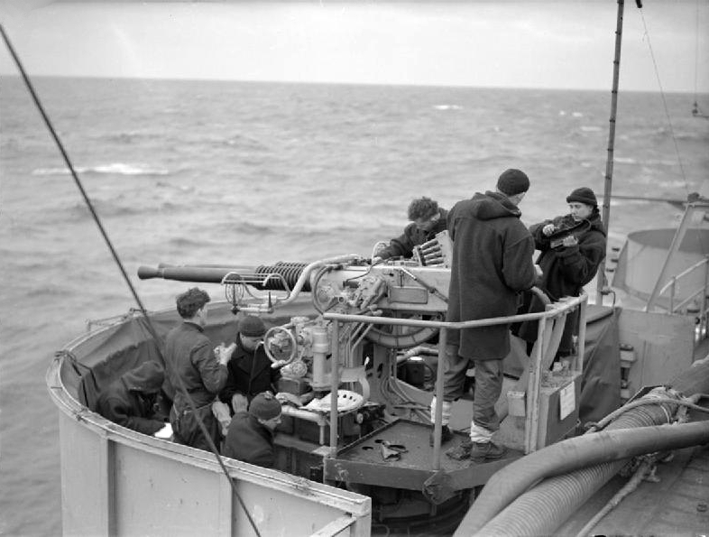 Crews cleaning the twin 40mm Bofors guns after a shoot from the Royal Navy escort carrier HMS Tracker (D24) whilst in the North Atlantic.